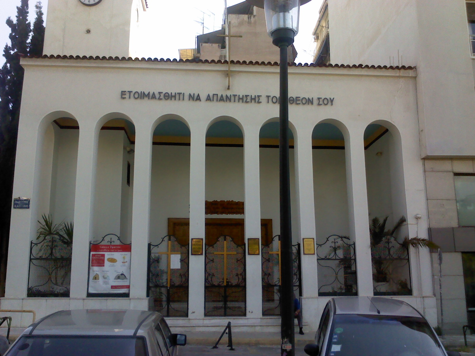 Evangeliki Ekklisia Piraia